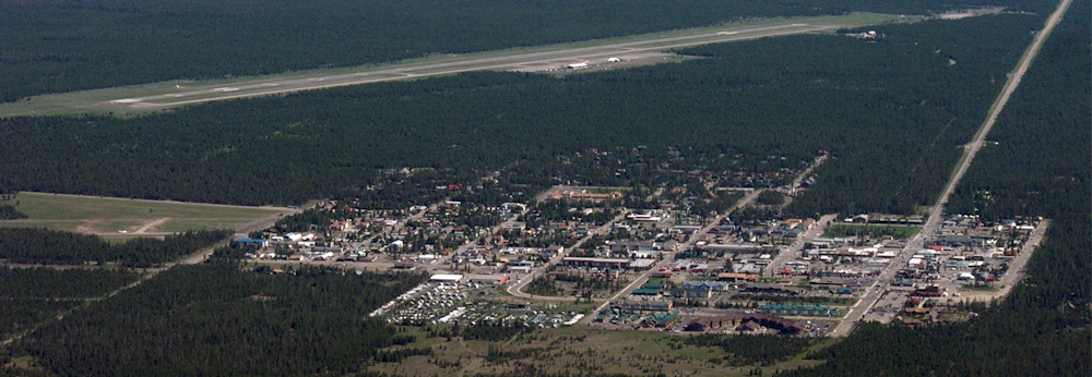 Aerial view of West Yellowstone, Montana, USA with Yellowstone Airport north of the town.